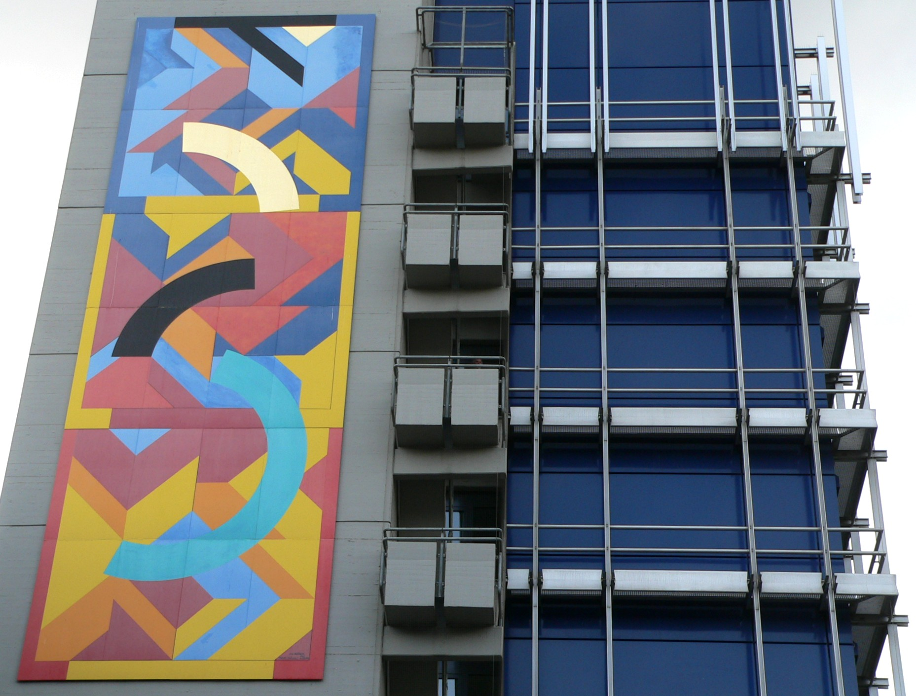 Otto-Herbert Hajek: Farbe flügelt im Raum, 2002. On the Building of the Südwestrundfunk (SWR), Stuttgart, Germany